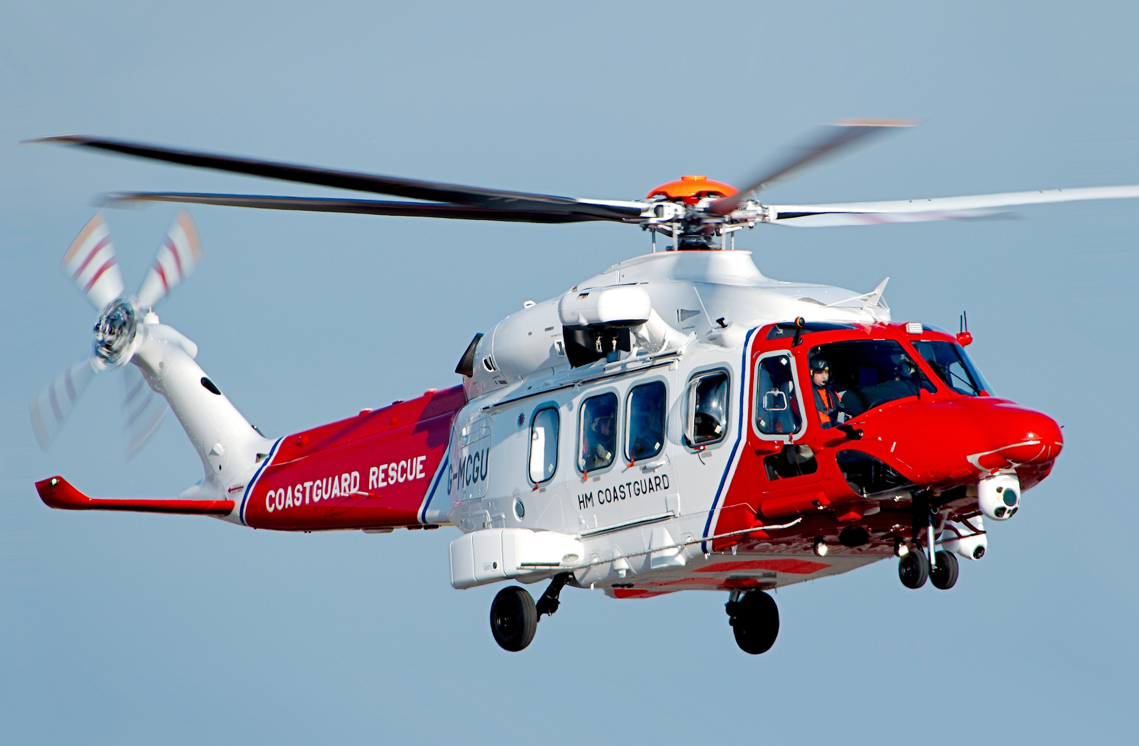 AW189 - Lydd Airport